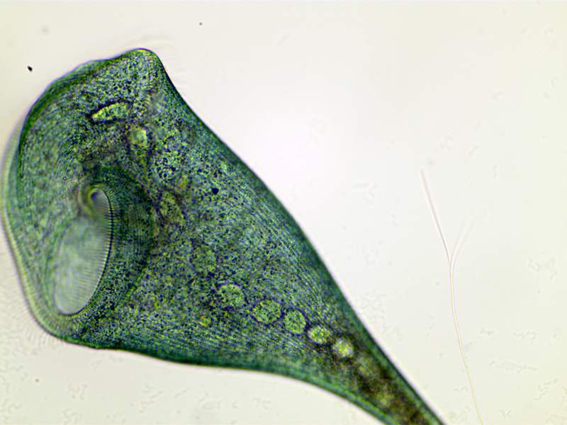 Stentor coeruleus 200x